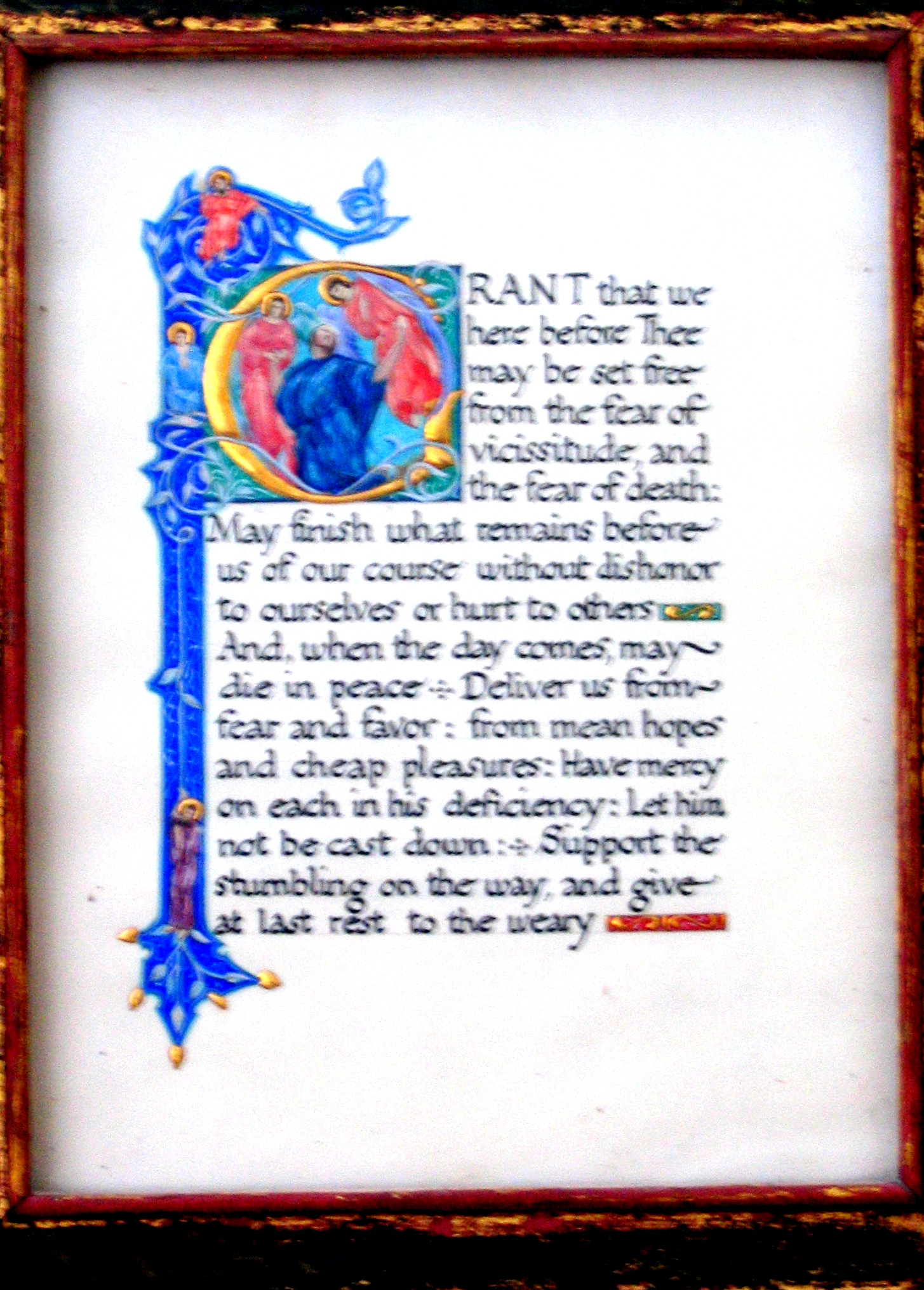 Illuminated page created by Austin Purves Other information Permission given to me orally by Joan Purves Bertaccini to photograph this work of art in order to publish on wikipedia